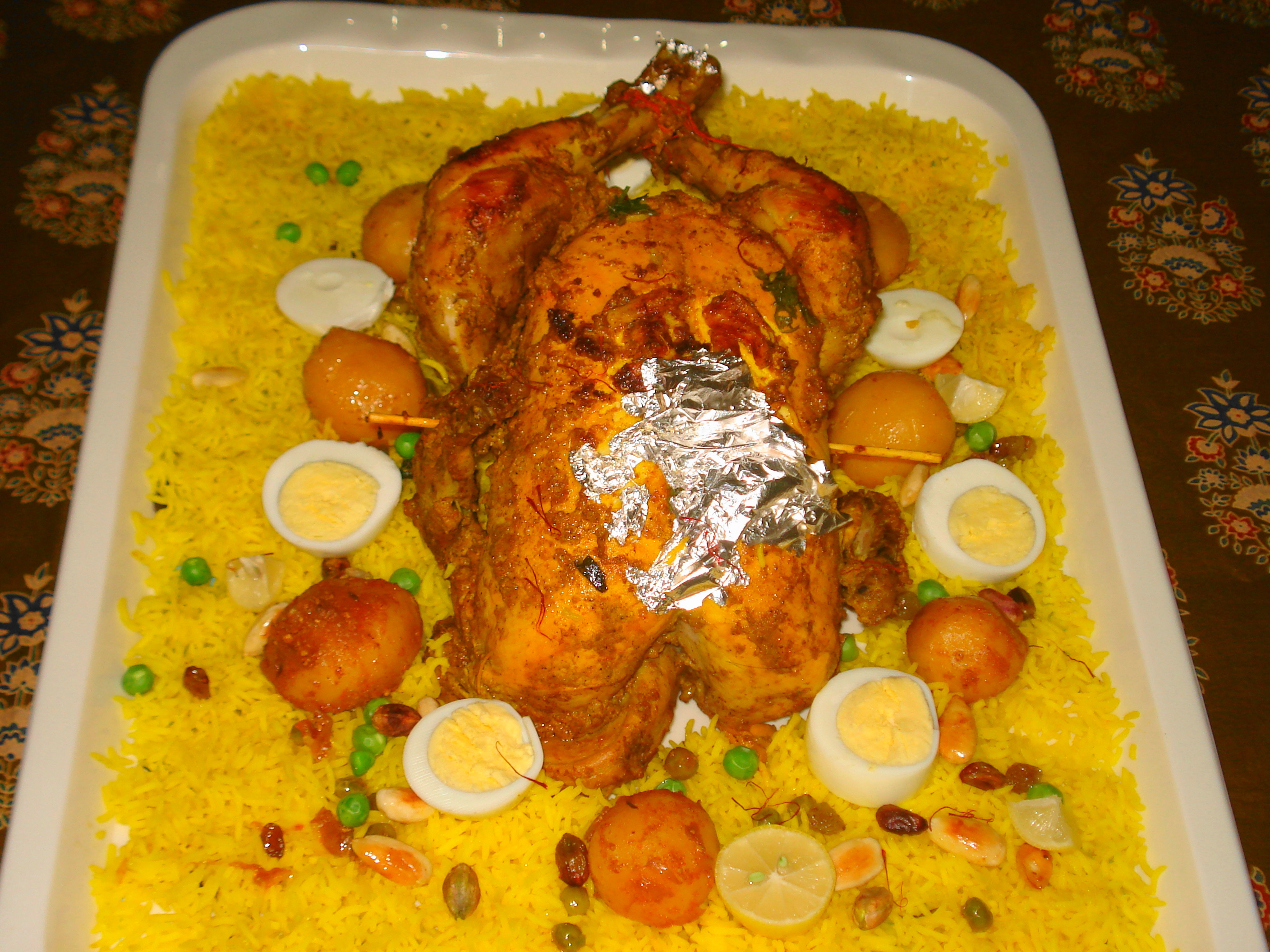 Murgh Musallam , Stuffed whole Chicken